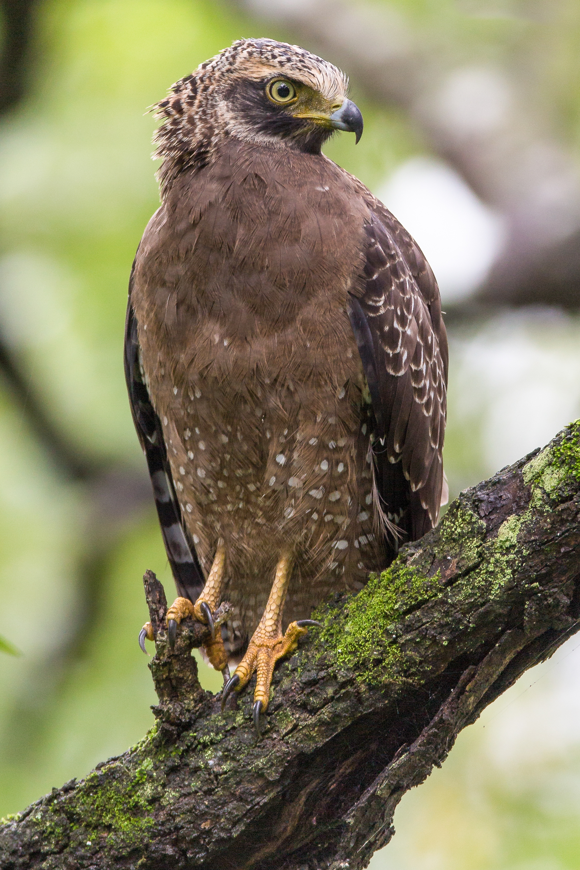 crested serpent eagle from kabini reservoir